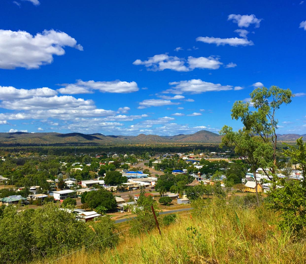 A photo of the town of Collinsville in May 2018.